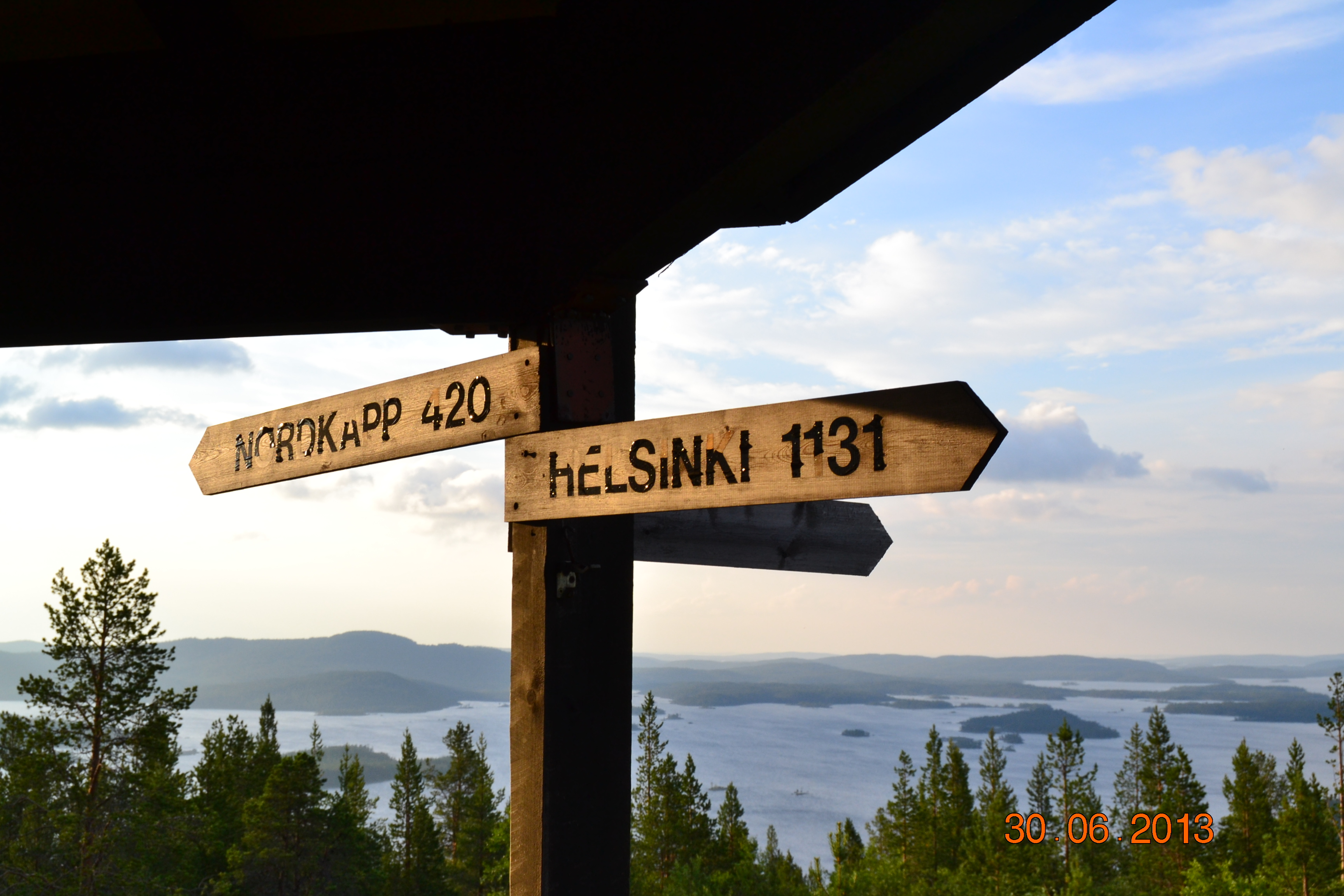 View from terrace to Lake Inari.